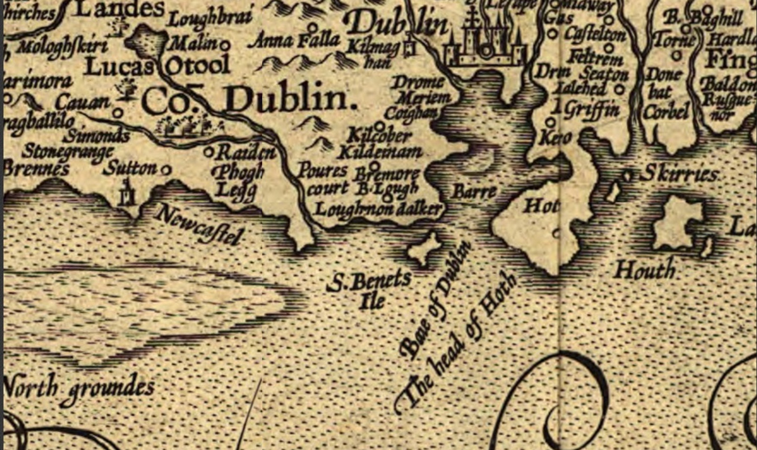 Baptista Boazio's Irlandiæ. c.1606